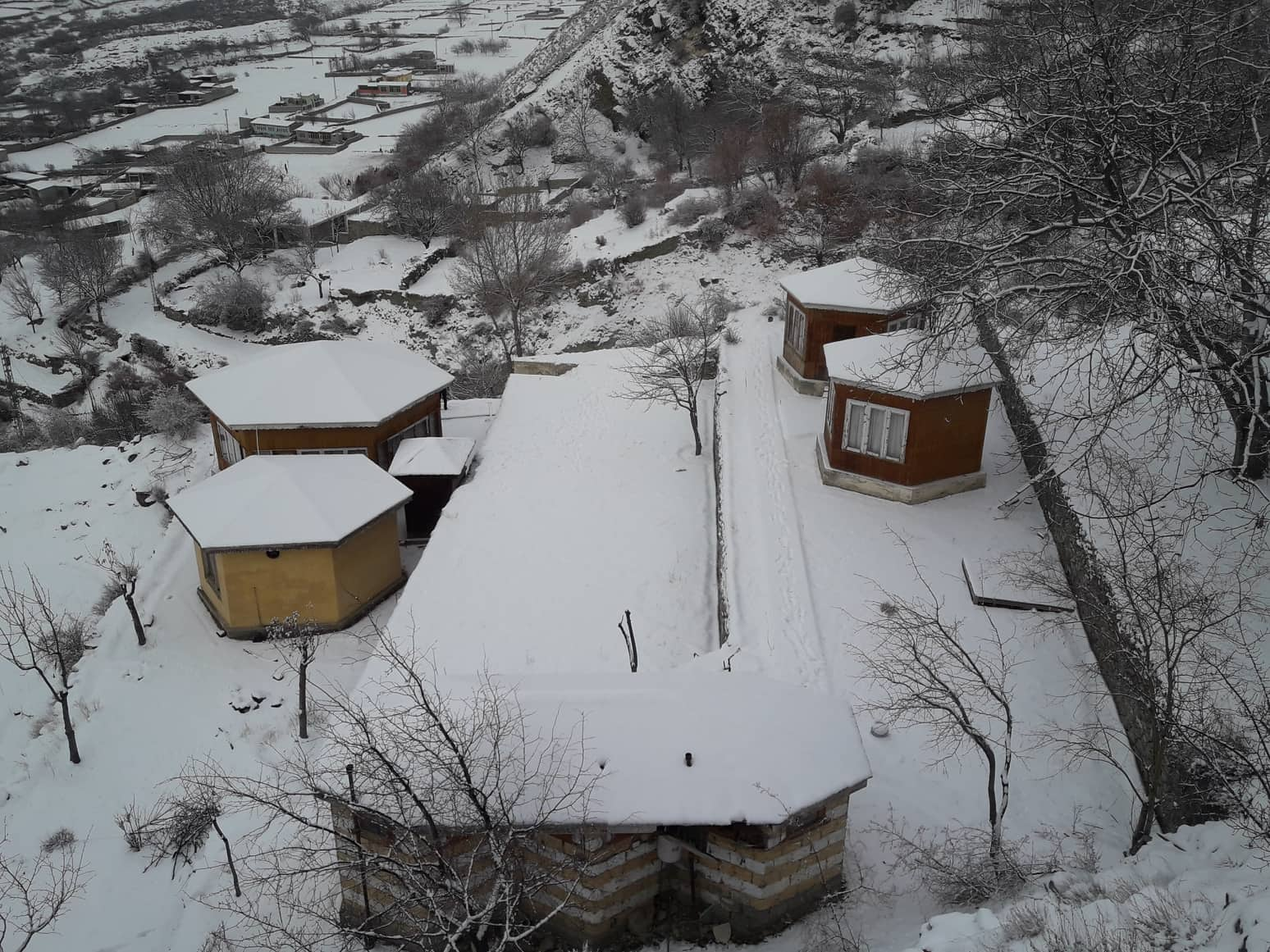 A tourist spot just 40 km from Gilgit city in Bagrote Valley.A tourist resort with beautiful water fall and incredible view of Diran peak .bagrote sarai hotel is situated in bagrote valley gilgit. sarai hotel is nearest rosort which is 40 km from gilgit city . facilitefs of sarai hotel